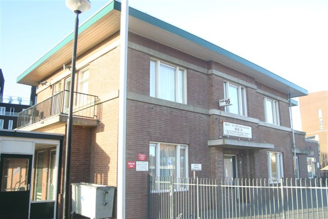 Former station Pothoofd in Deventer.